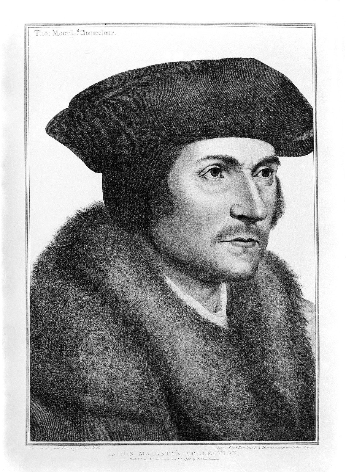 Portrait of Thomas Moor. Reproduction of Holbein's portrait. Iconographic Collections